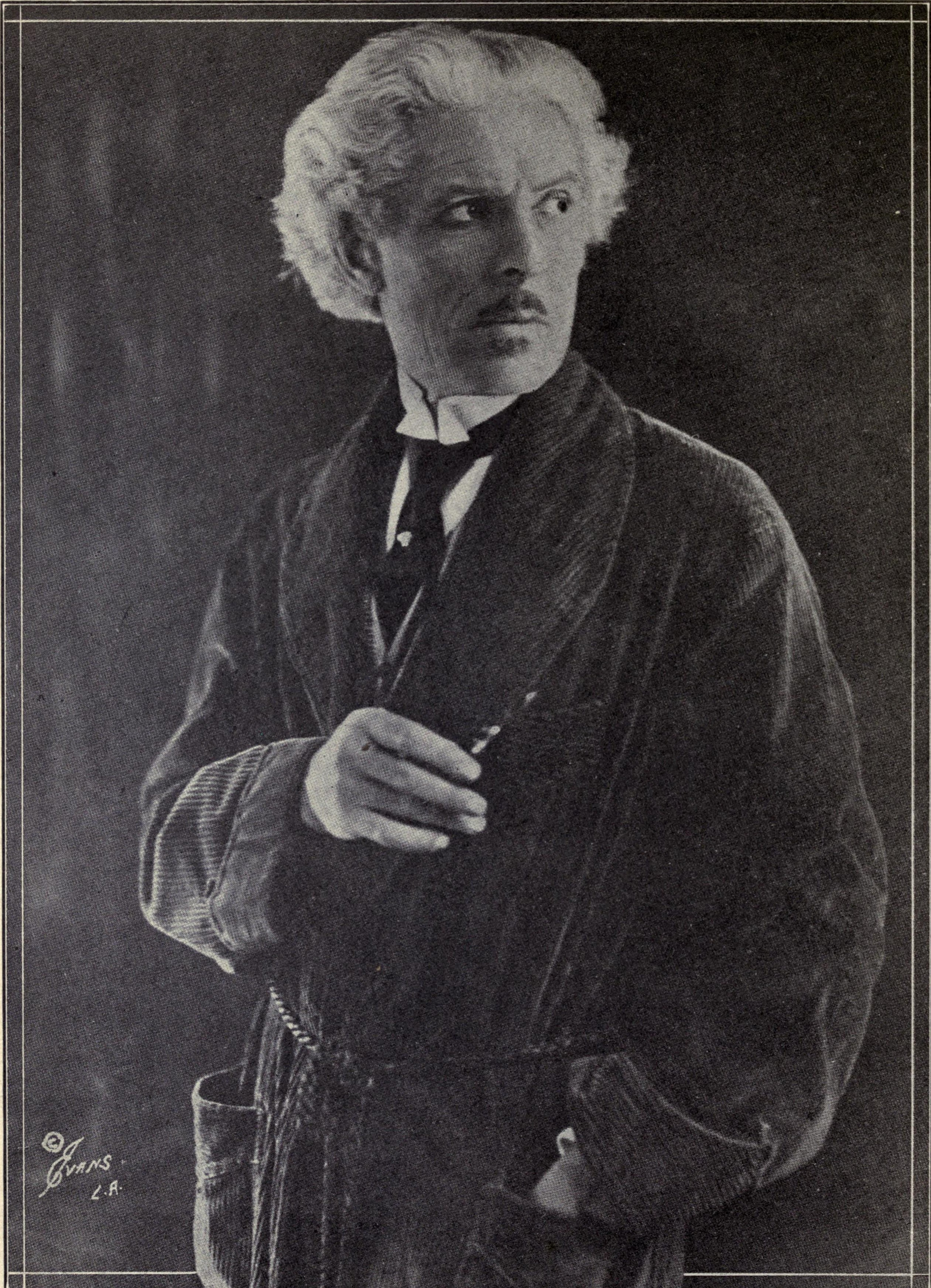 Actor Josef Swickard on page 48 of the 1921 Motion Picture Studio Directory and Trade Annual.